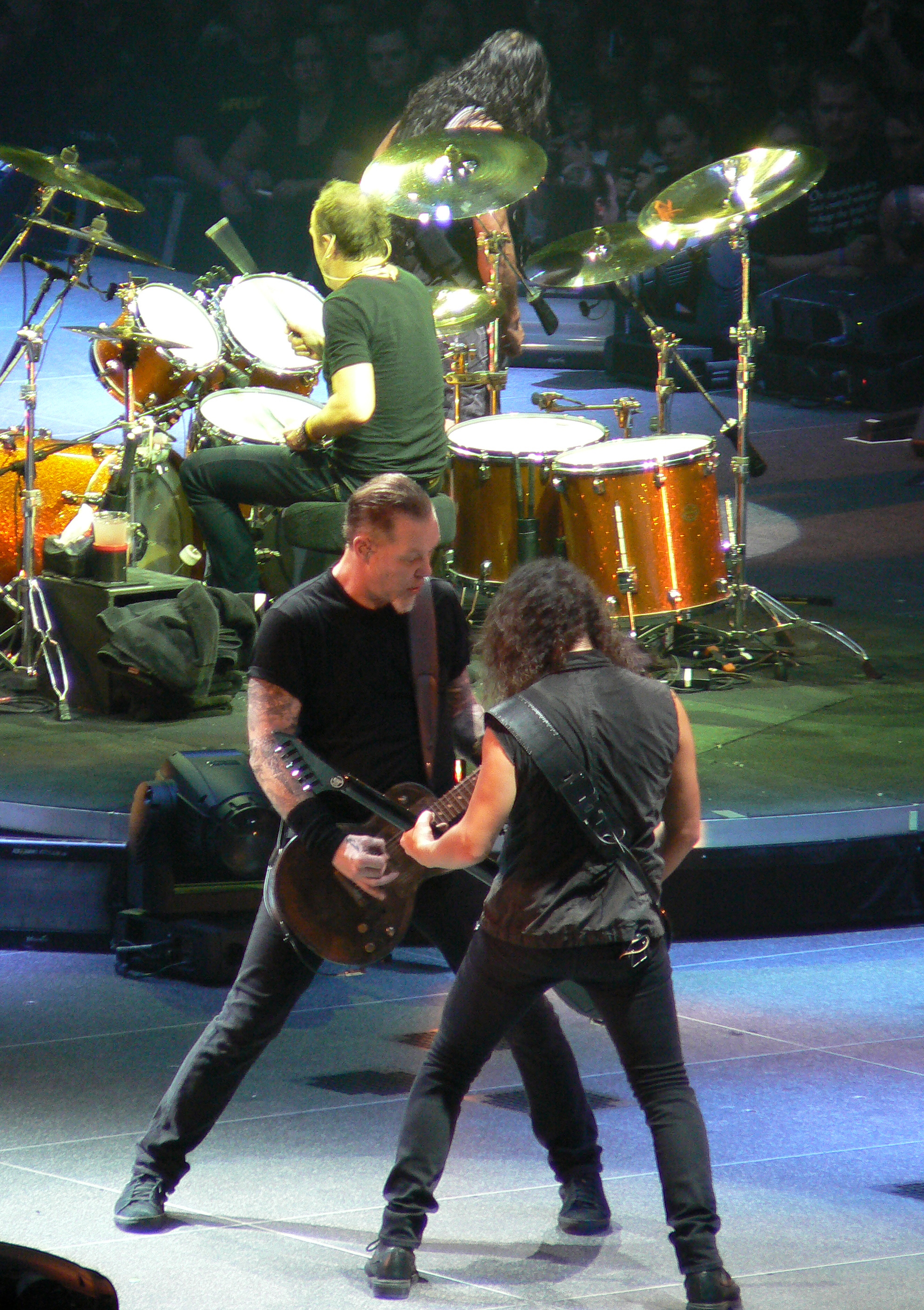 Metallica live at Sacramento